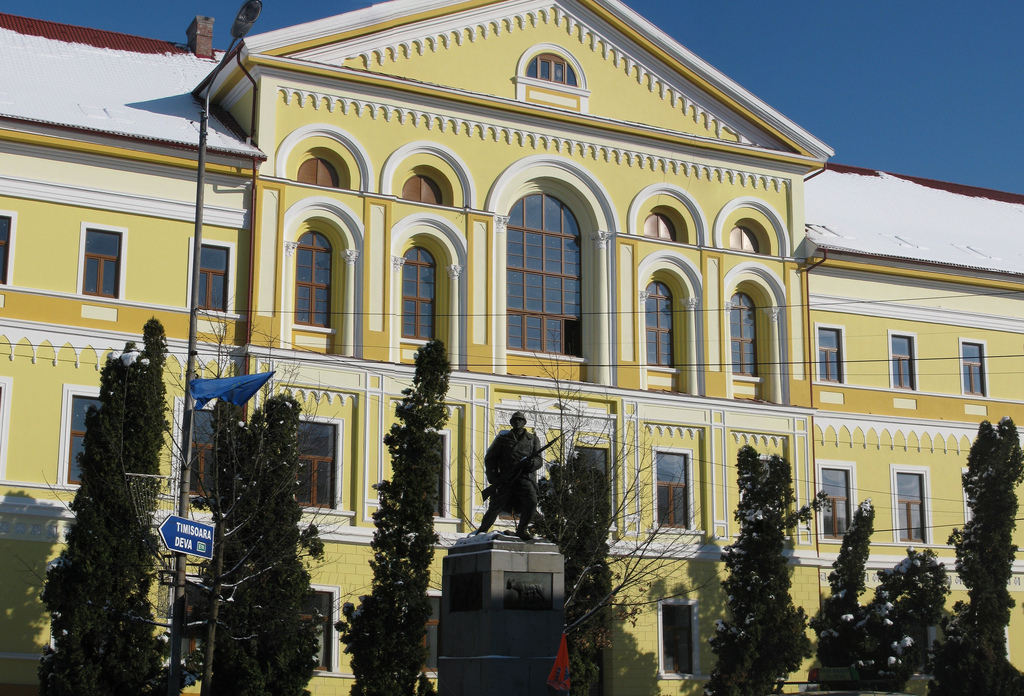 The former County Hall of Caraș-Severin County (1919-1926) and Severin County (1926-1950) in Lugoj, Romania.